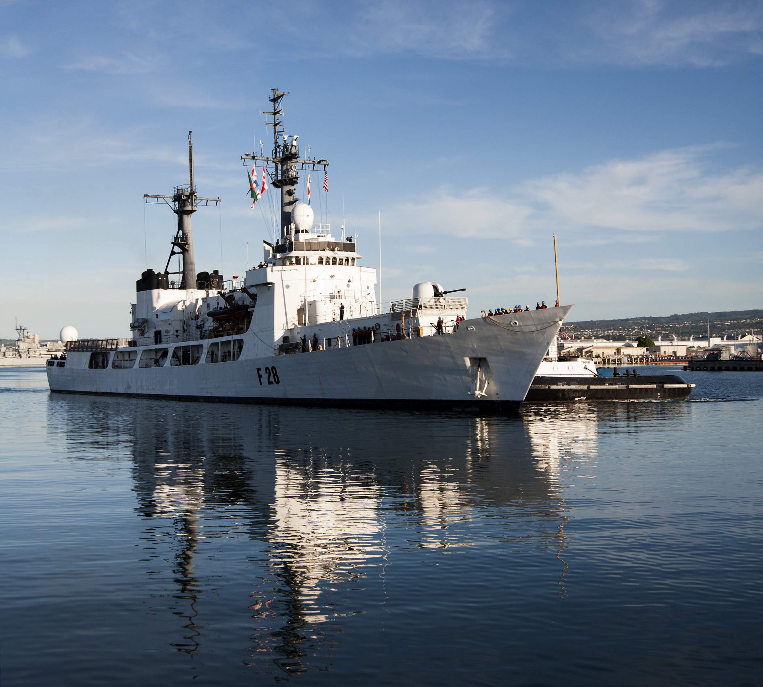 The Bangladesh Navy frigate Somudro Joy (F-28) arrives at Joint Base Pearl Harbor-Hickam, Hawaii (USA), for a scheduled port visit. From 1972 to 2012 the ship was known as the U.S. Coast Guard Hamilton-class high endurance Cutter USCGC Jarvis (WHEC-725).